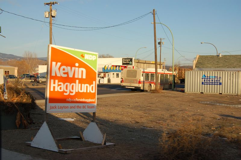 (A supportive sign in Kelowna, B.C)